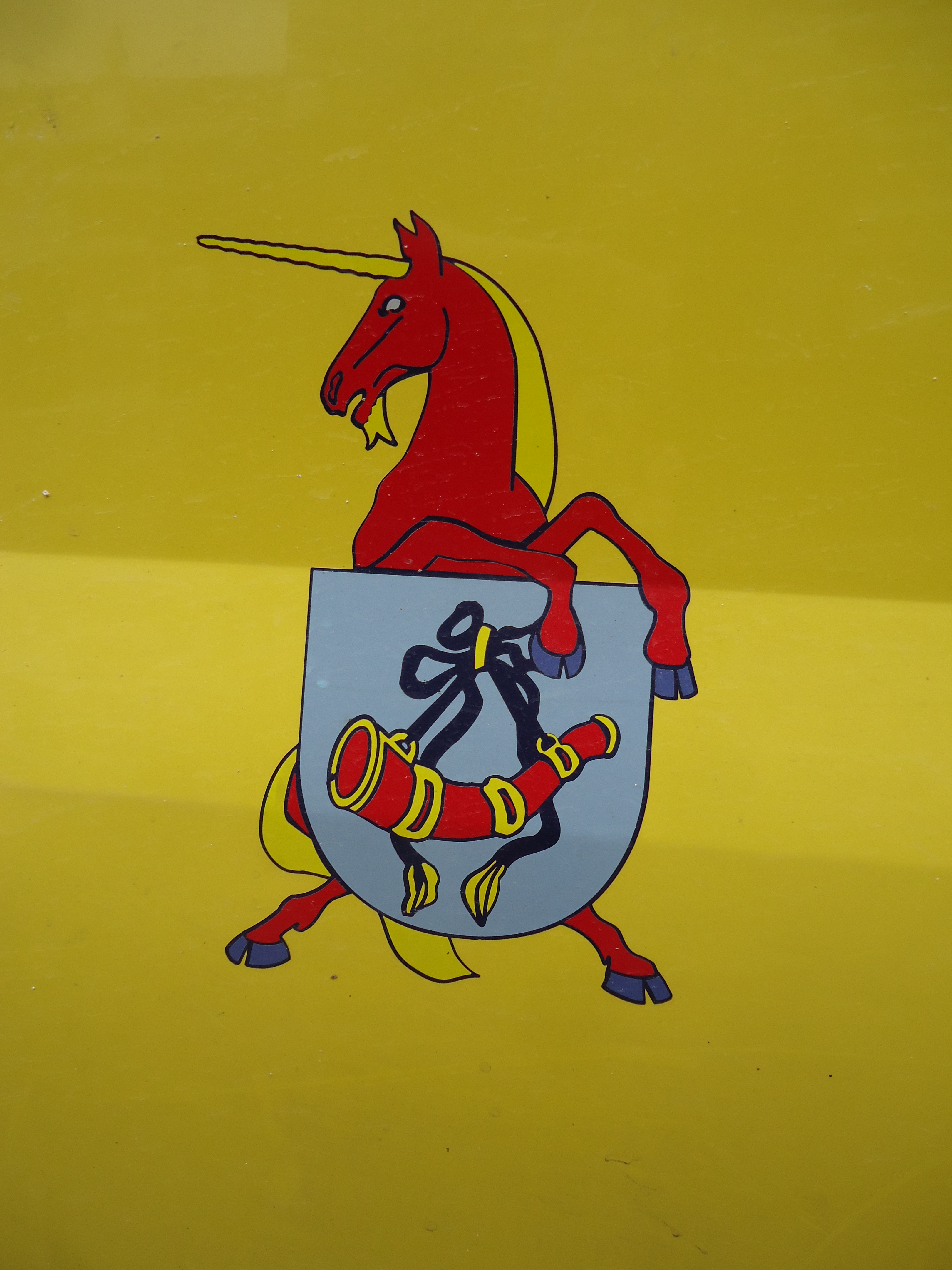 Coat of arms of the town and municipality of Hoorn in the province of North Holland, displayed on community vehicle.